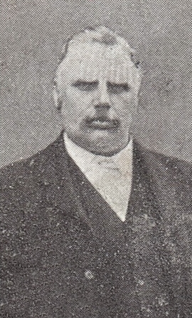 Dick Molyneux while Manager of Brentford FC in 1903/04